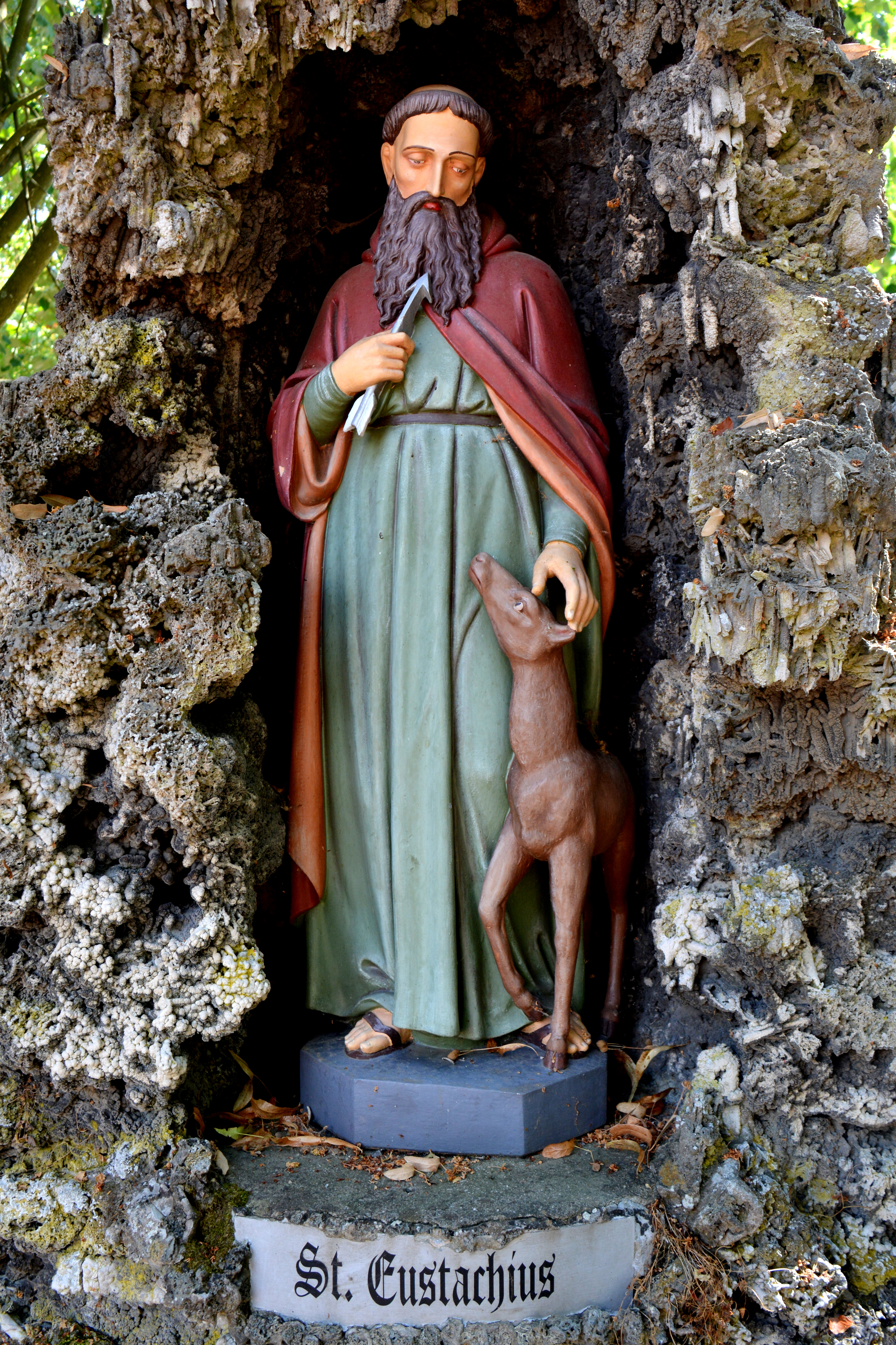 Church of the Visitation (Hehn, Mönchengladbach), statue St. Eustace